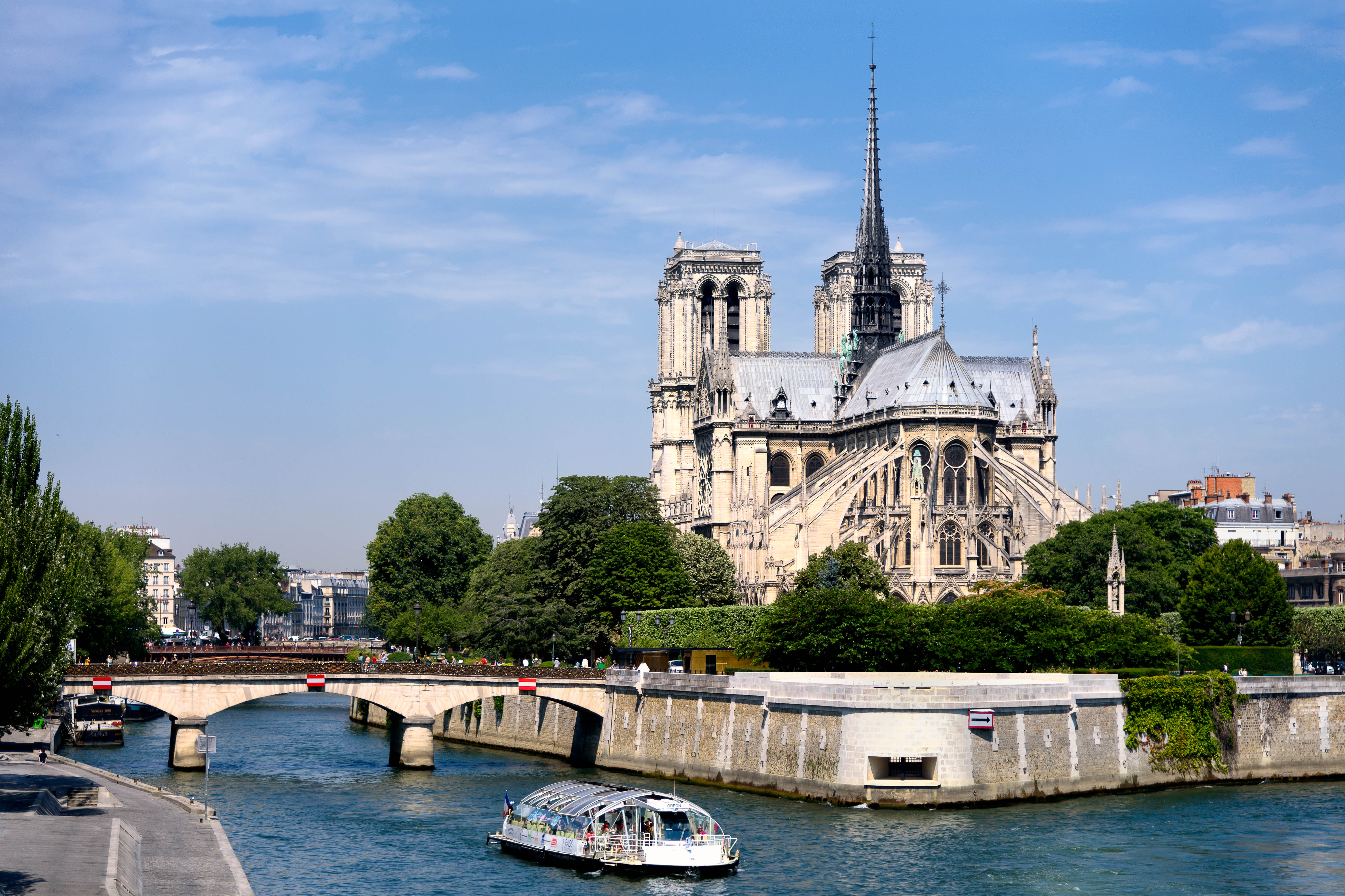 Pont de l'Archevêché and Notre-Dame de Paris as seen from the Pont de la Tournelle, Paris, France.